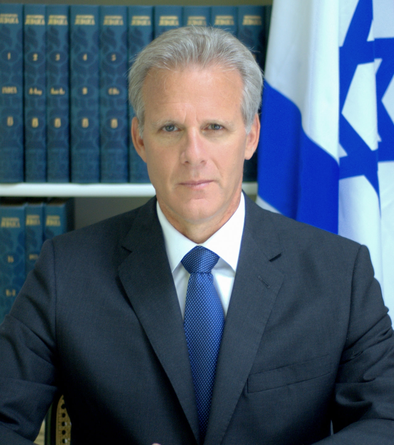 Official portrait of Michael Oren